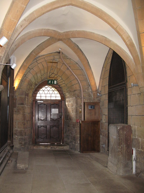 The Slype, Hexham Abbey The southern bay of the South Transept is, unusually, taken up by the slype, now the main entrance to the Abbey, but originally a passage between the south transept and the chapter house that led from the cloisters to the canons' cemetery. {Source: Hexham Abbey Guide, p10.}